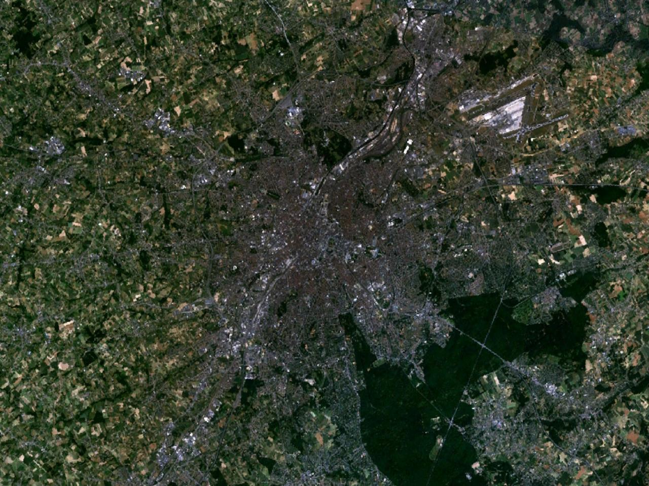 Brussels, Belgium. Satellite view.